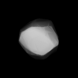 3D convex shape model of 2001 Einstein, computed using light curve inversion techniques. J. Hanuš, J. Ďurech, M. Brož, B. D. Warner (June 2011). "A study of asteroid pole-latitude distribution based on an extended set of shape models derived by the lightcurve inversion method". Astronomy and Astrophysics 530: A134. ISSN 0004-6361. arXiv